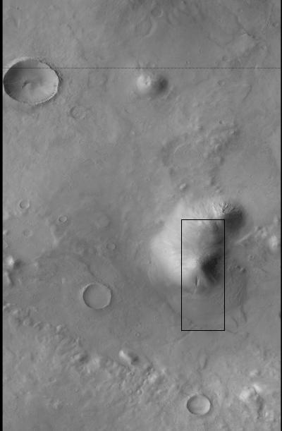 CTX wide view of a hill with gully, shows location of S05-00188 with box. Location is 193.09 E and 45 S.